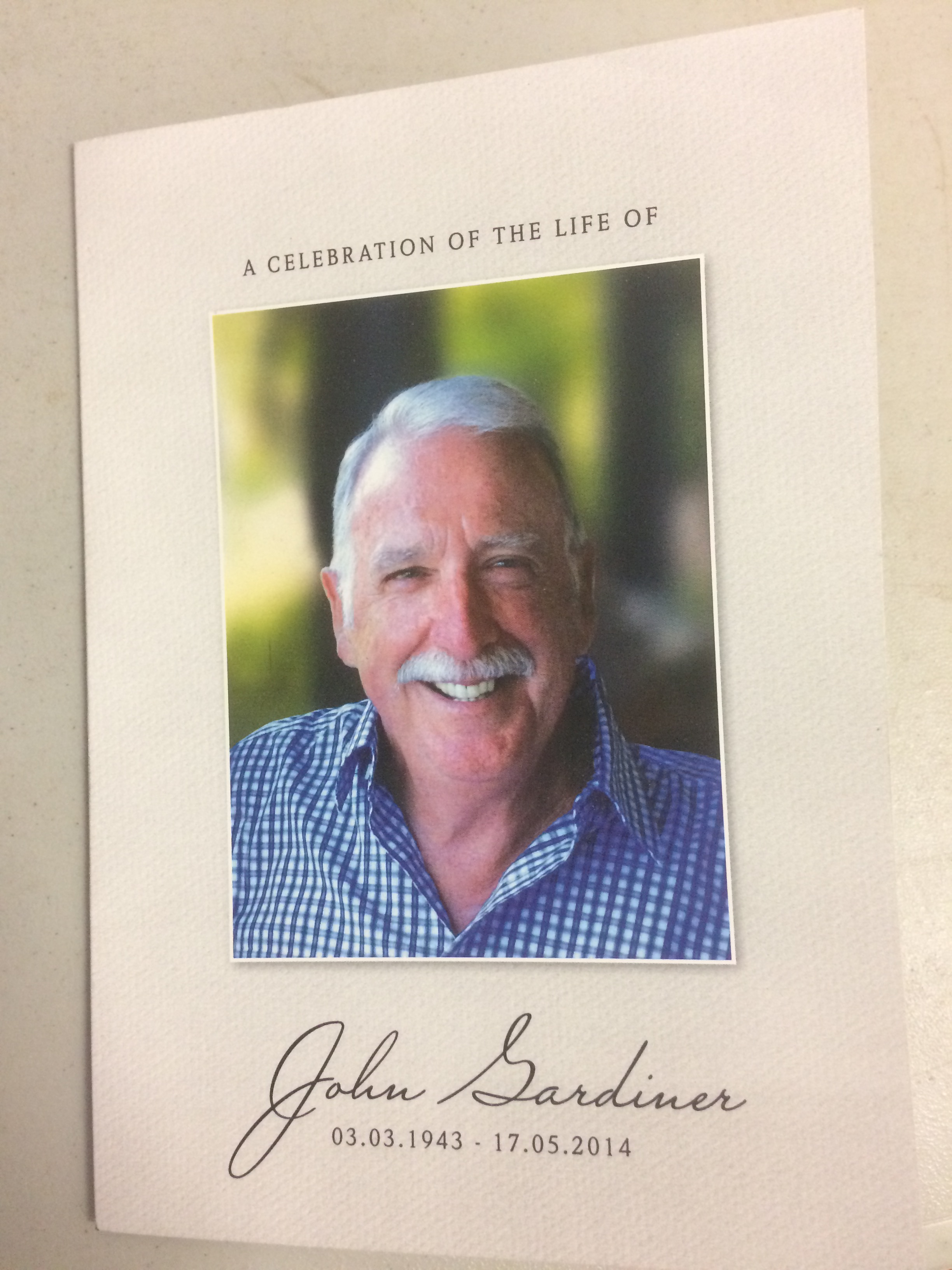 Pamphlet from John Gardiner’s funeral service